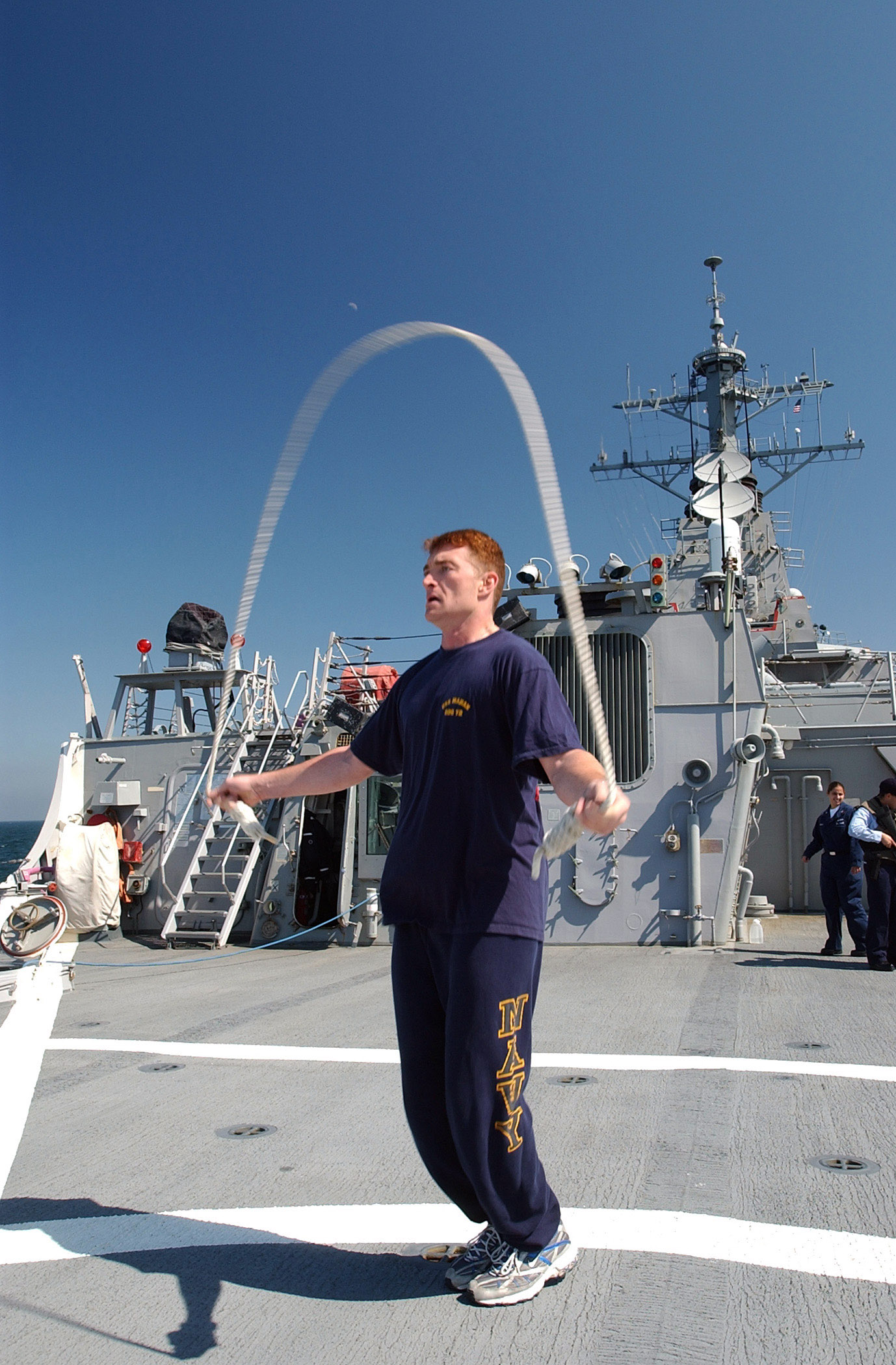 BALTIC SEA (May 23, 2007) - Lt. Steven J. Ayling, a training administrative officer assigned to guided-missile destroyer USS Mahan (DDG 72), jump ropes on the flight deck of Mahan during a physical fitness workout. Mahan Sailors exercise on the flight deck on a regular basis as part of the Navy's fitness program. U.S. Navy photo By Mass Communication Specialist Seaman Vincent J. Street (RELEASED)